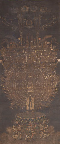 Senju Sengen Kannon, Kosanji, Onomichi, Hiroshima, Japan